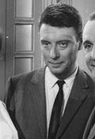 Jorge Beillard- actor